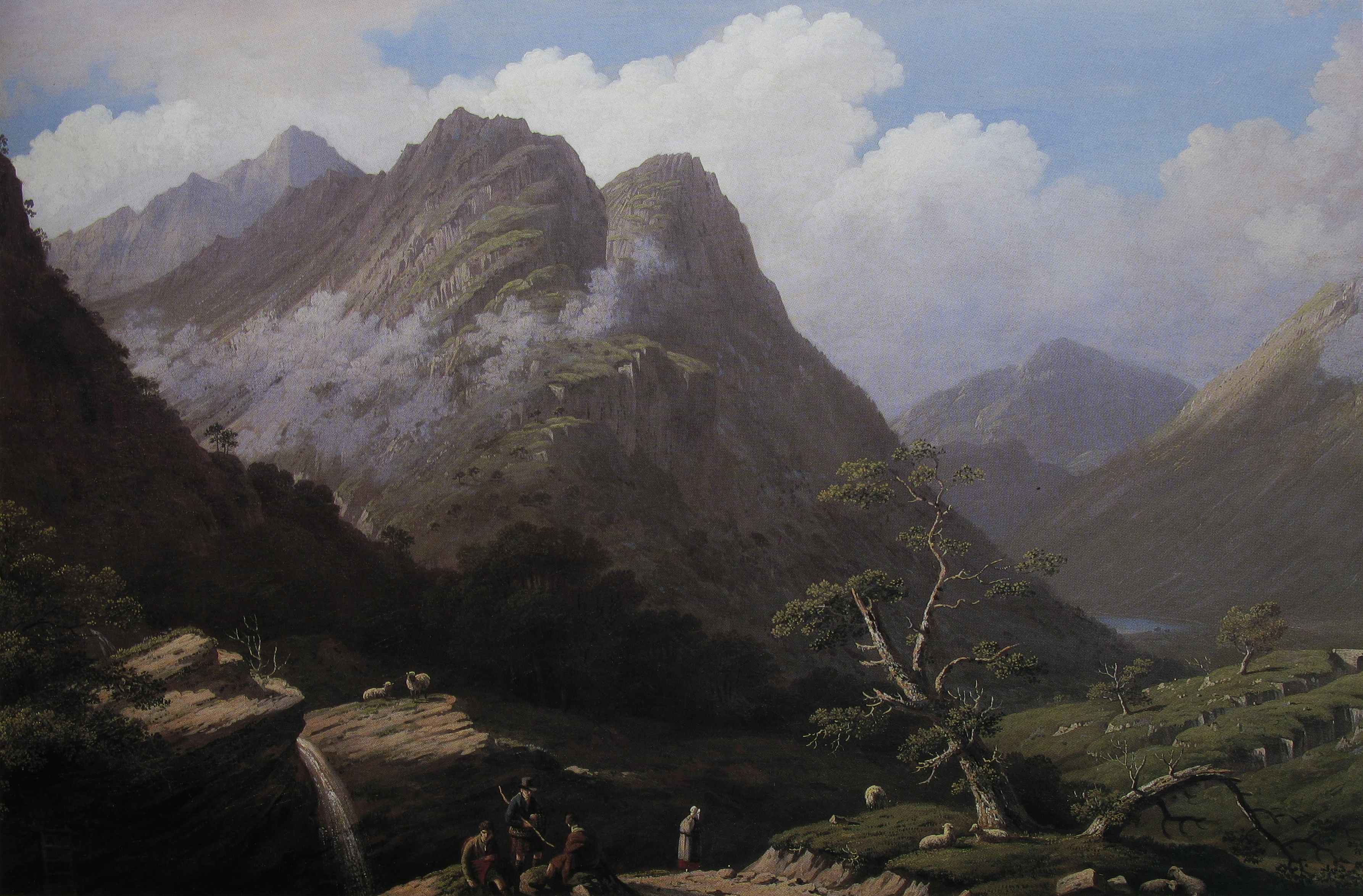 Glencoe; Oil on canvas, 62.3 x 110.5 cm